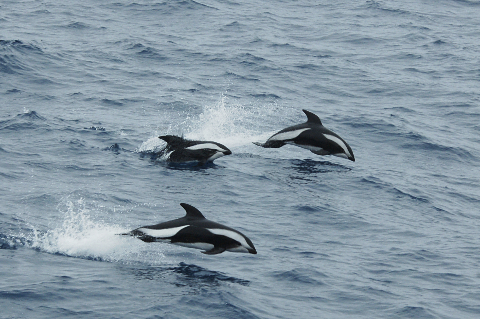 Hourglass Dolphins in Drake Passage